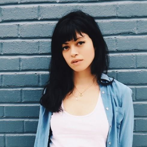 Writer / Director